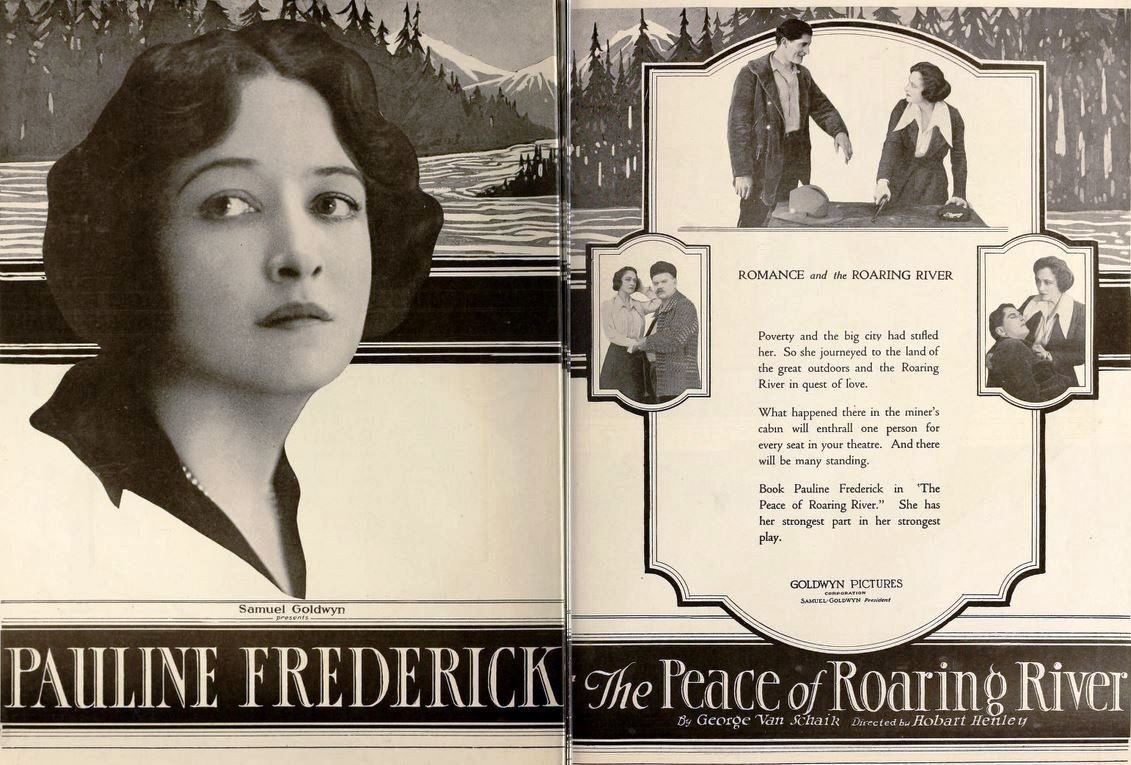 Ad for the American film The Peace of Roaring River (1919) with Pauline Frederick, Thomas Holding, and Hardee Kirkland (in small image with cap), on pages 1180 and 1181 of the August 9, 1919 Motion Picture News.